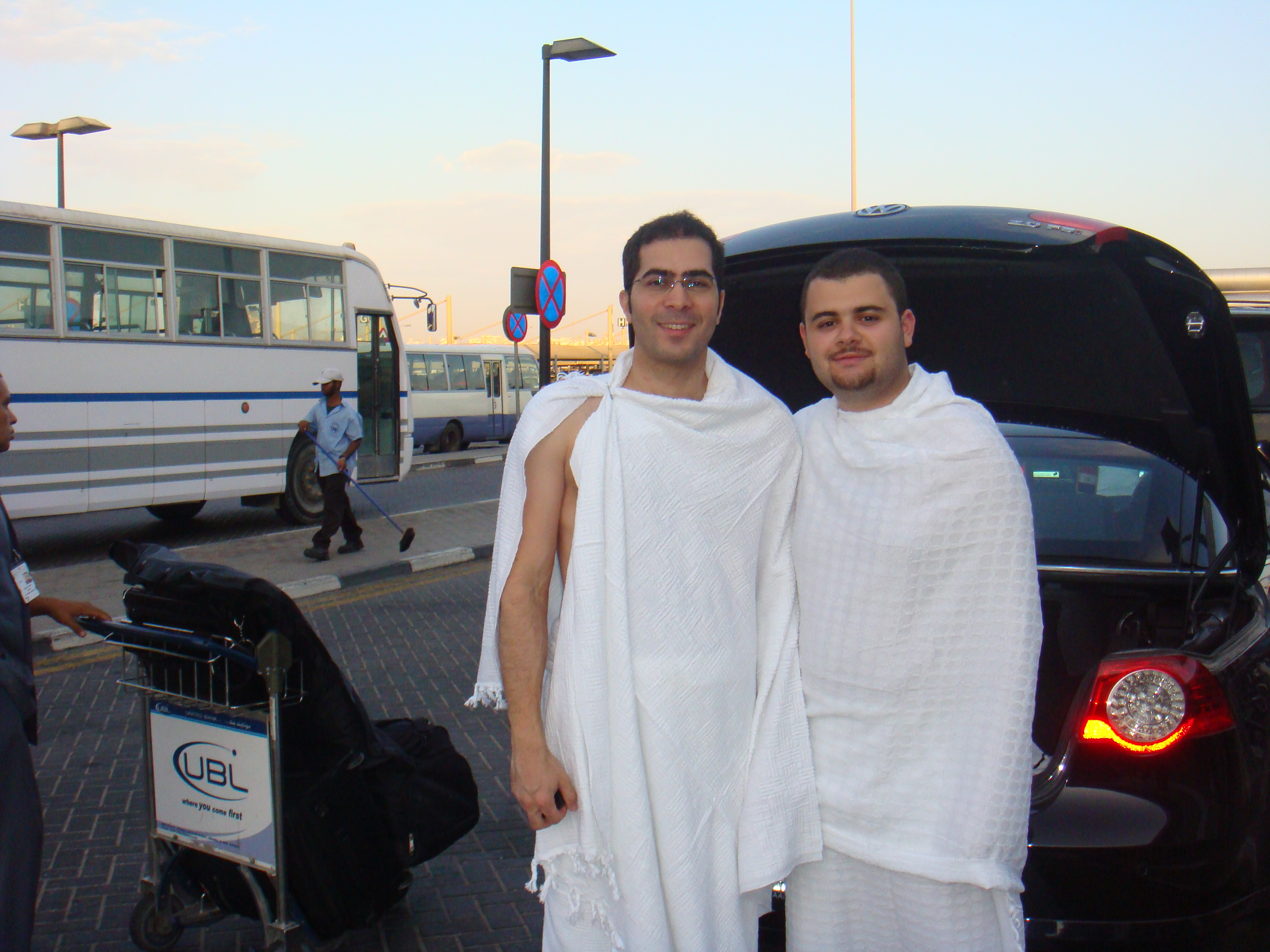 Al Jazeera's Sami Zeidan and Jamal Elshayyal land at Jeddah international Airport for coverage of Hajj.